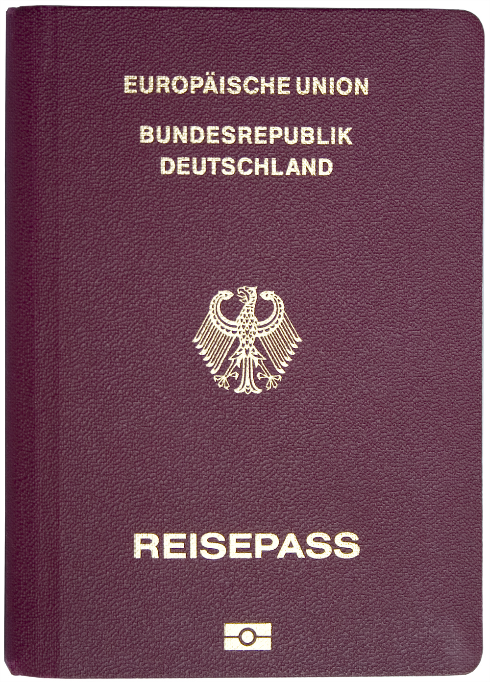 German biometric passport of November 2006 in high resolution.